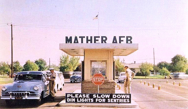 Mather AFB, California main Gate